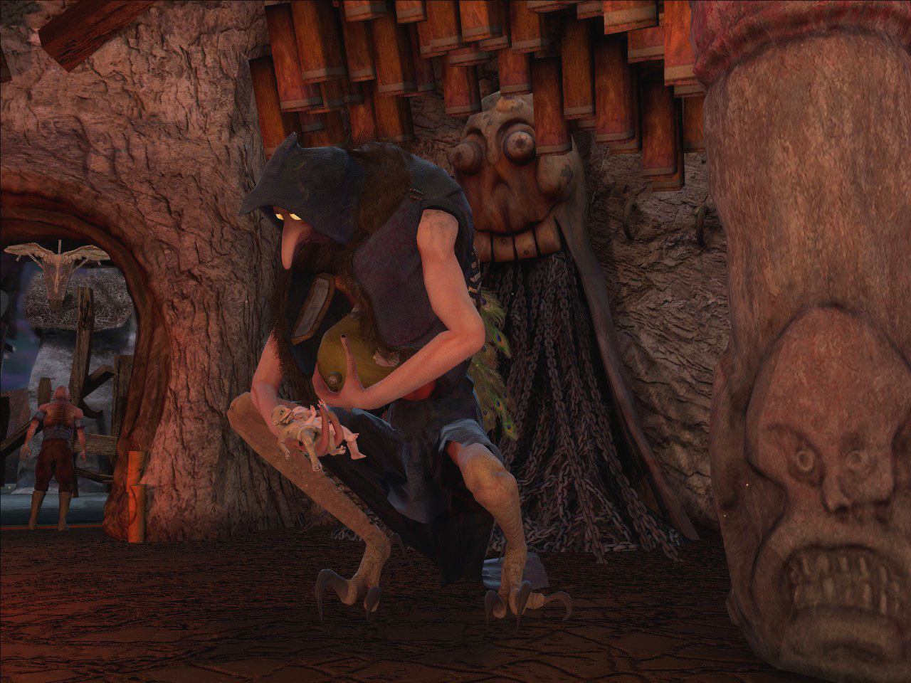 Zeno Clash screenshot. Released in 2009, the game was developed by ACE Team and is powered by Valve Software's Source engine.